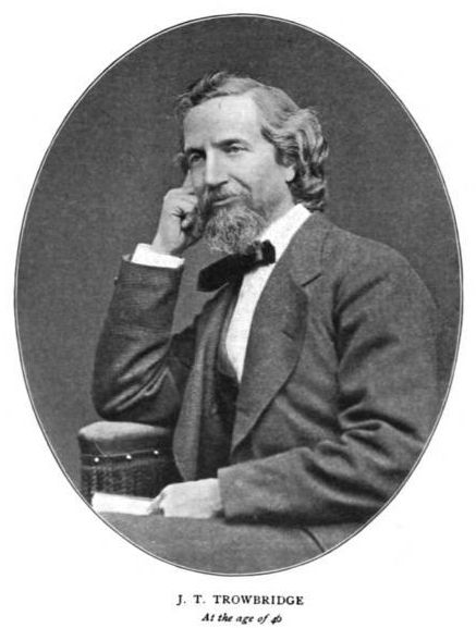 John Townsend Trowbridge at age 45